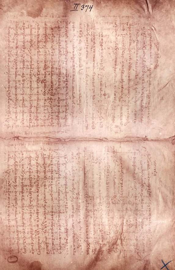 An unfolded page from the Archimedes Palimpsest